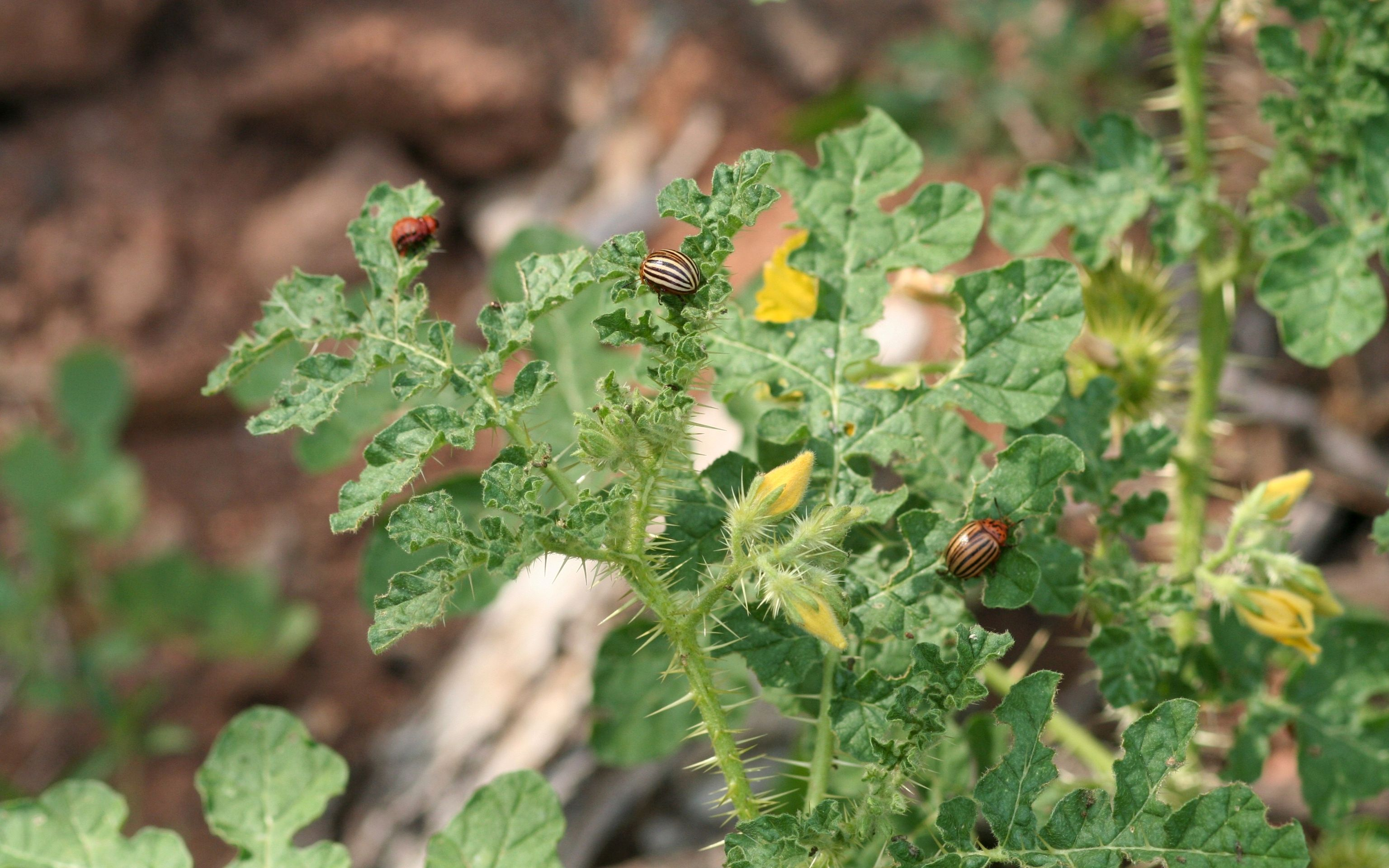 Colorado potato beetle Leptinotarsa decemlineata (Say, 1824), Adults and larva on native host. July 10, 2006 - Fort Sill, Oklahoma, United States Adultes et larve de doryphores (Leptinotarsa decemlineata, Chrysomelidae) sur Solanum rostratum à Fort Sill (Oklahoma).